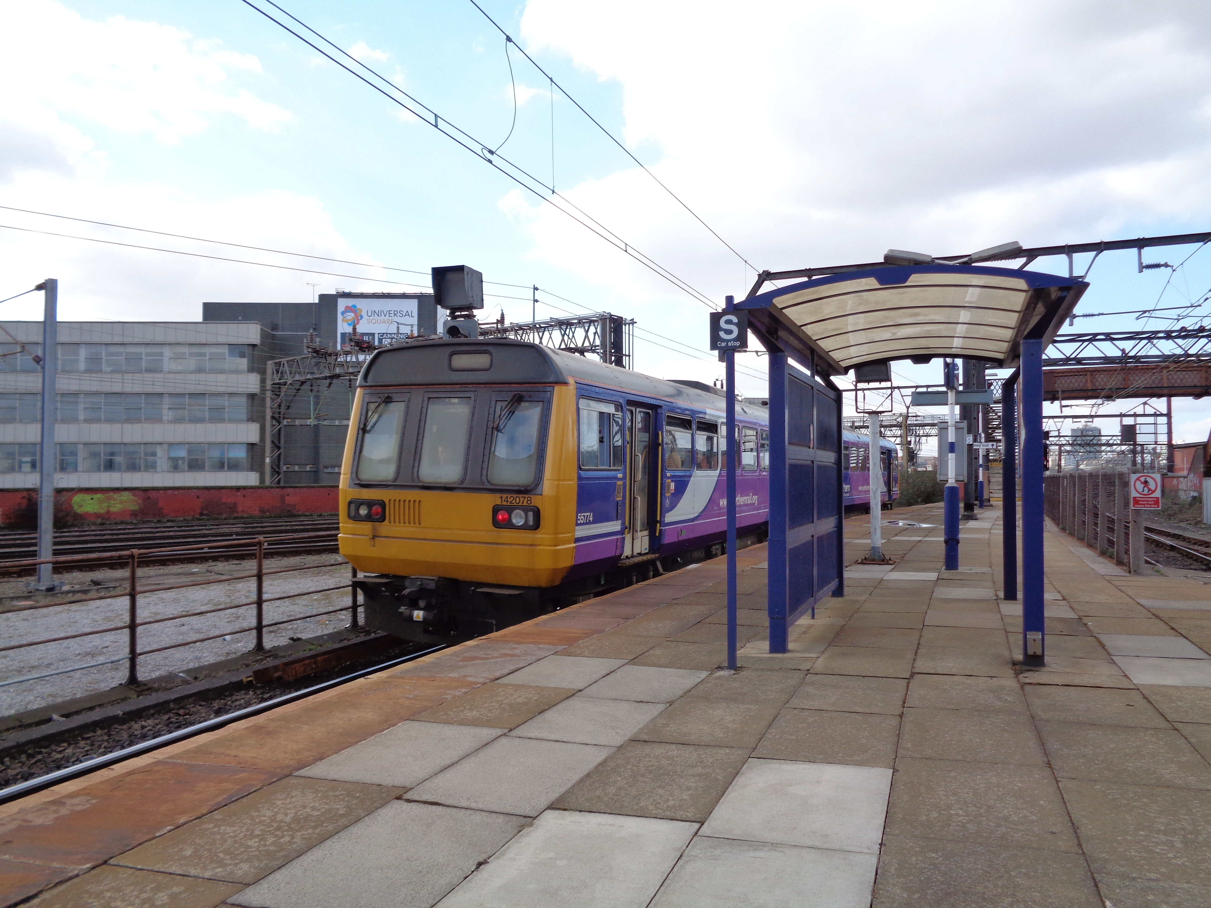 142078 passes Ardwick railway station, Manchester.